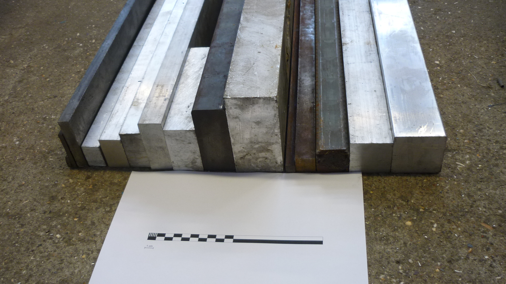 Square and rectangular bars in a machining workshop.